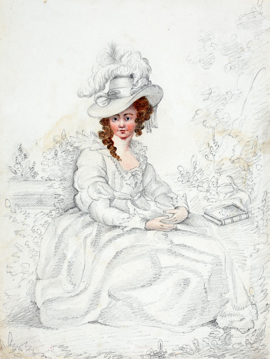 Portrait of Sarah Maria Louisa Kirwan, ca. 1845, by her husband and murderer, William Burke Kirwan